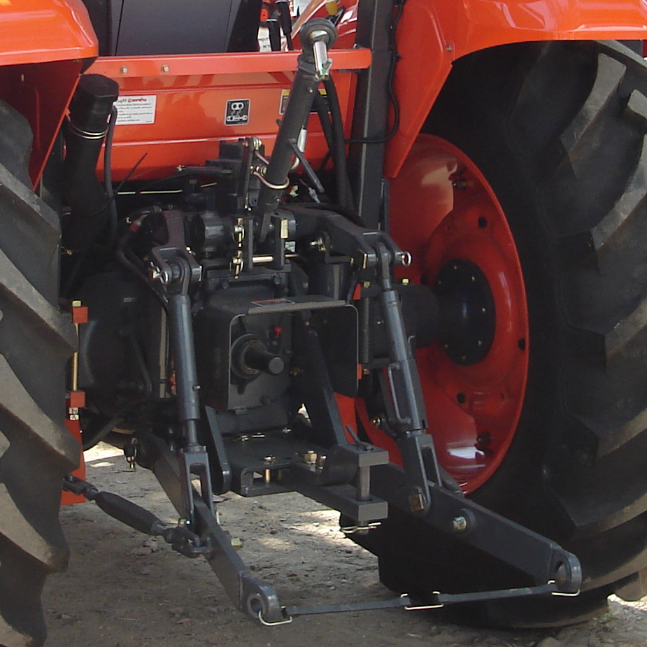 Rear view of a Kubota tractor in Chiangmai, Thailand.